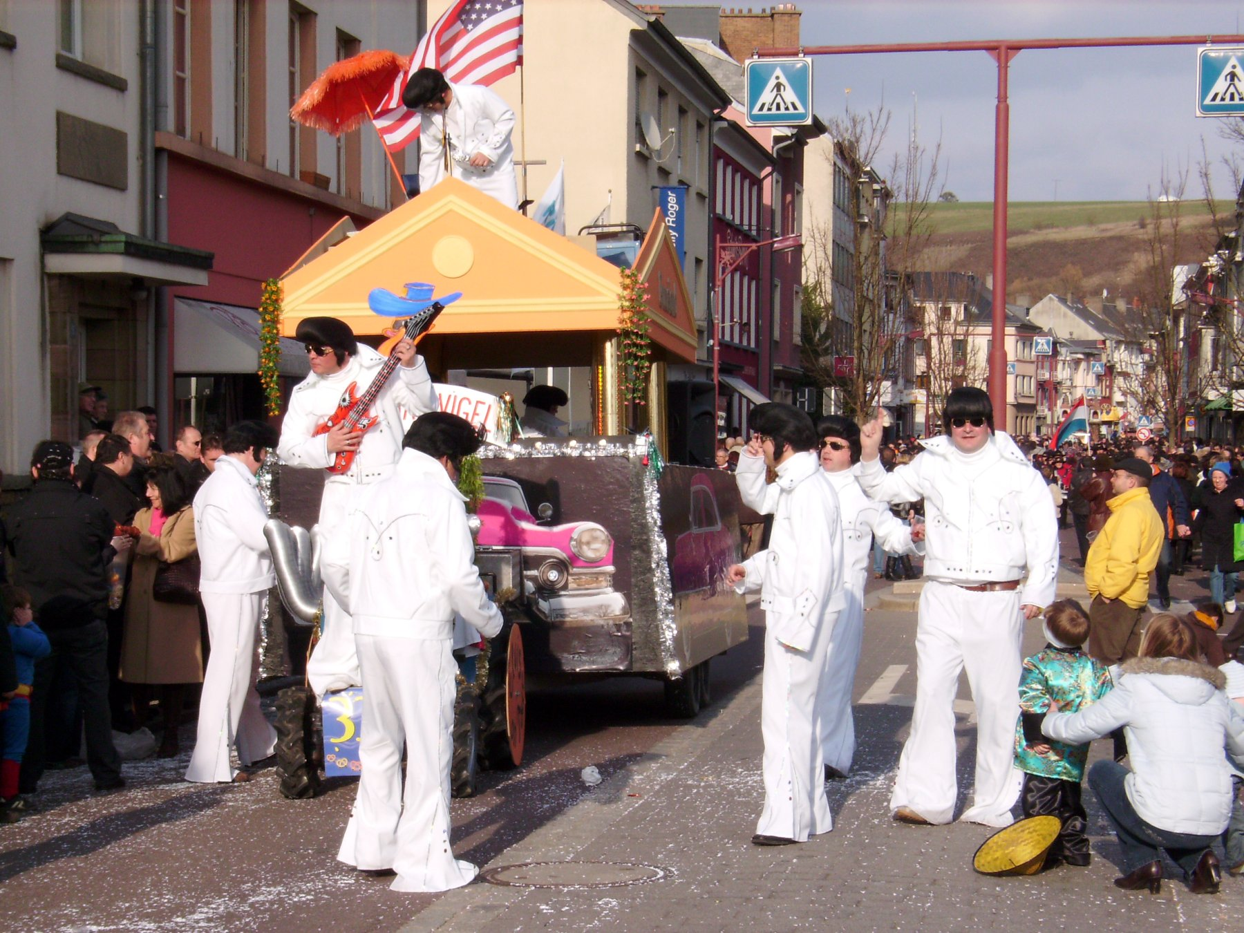 Cavalcade of Wasserbillig on first Snday in springtime 2009